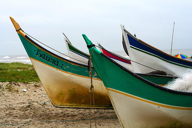 Boats in Matinhos, Paraná, Brazil.